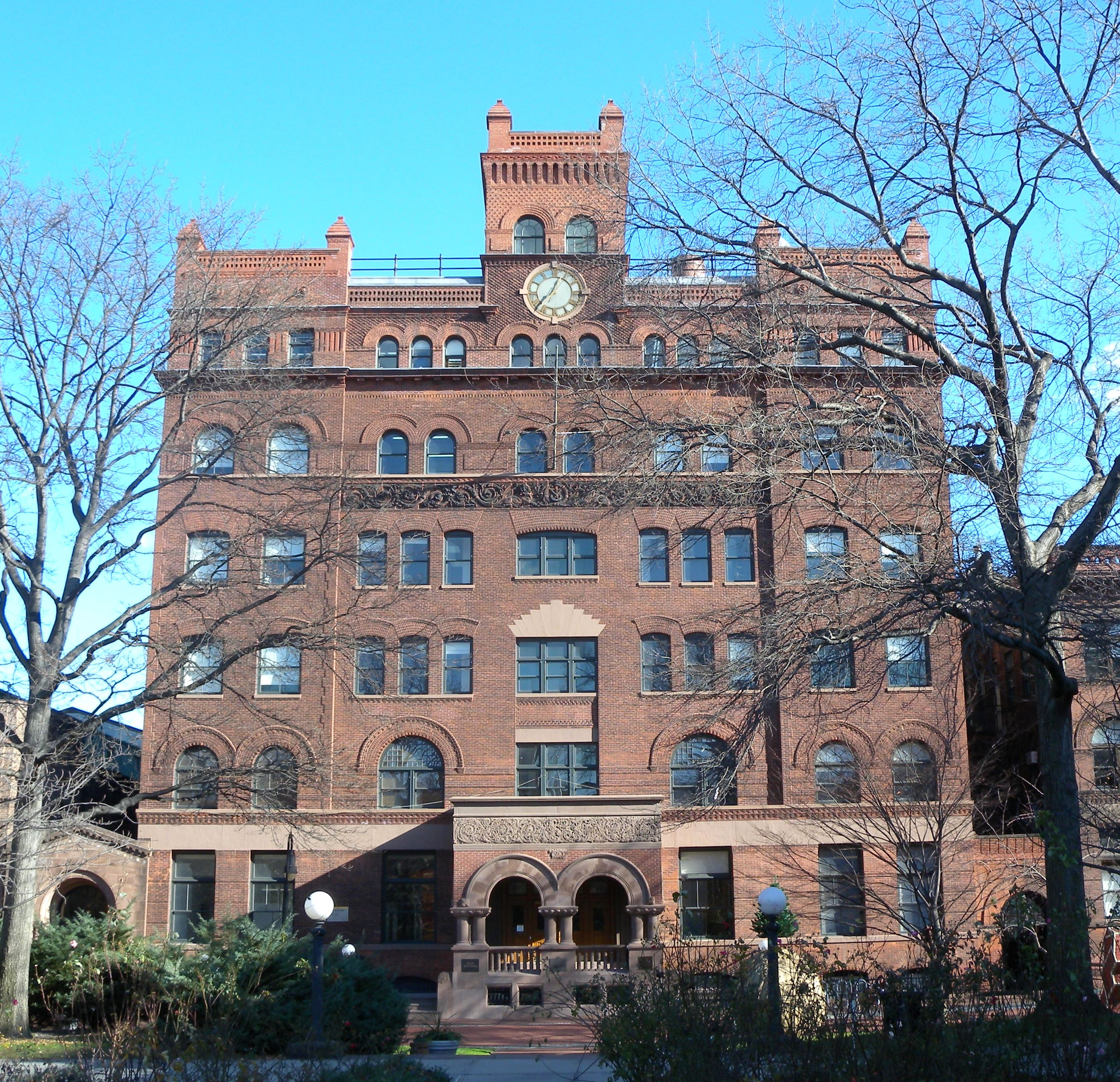 Looking east at Main Building on a sunny midday.